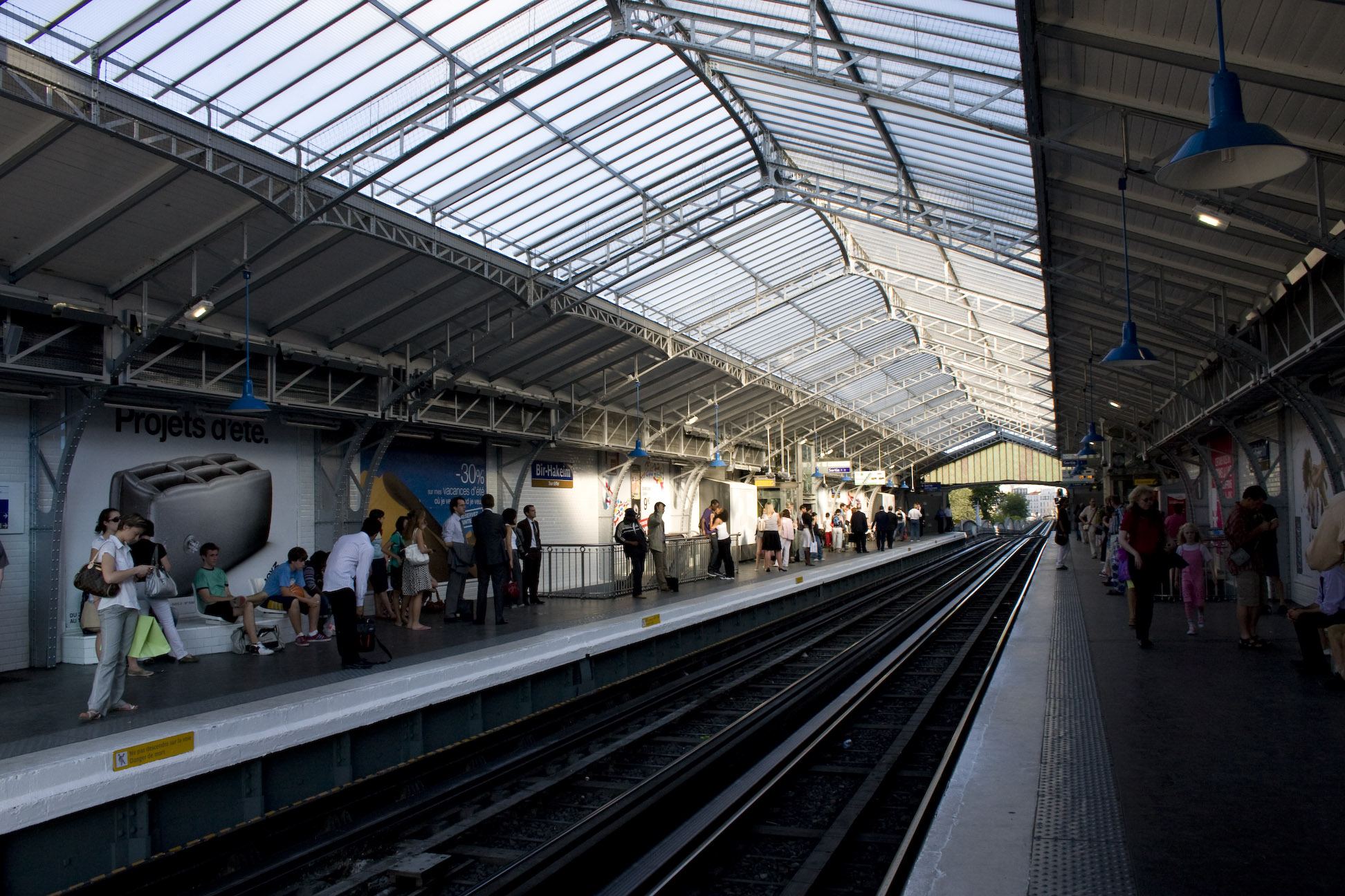 Bir-Hakeim station of Paris Metro